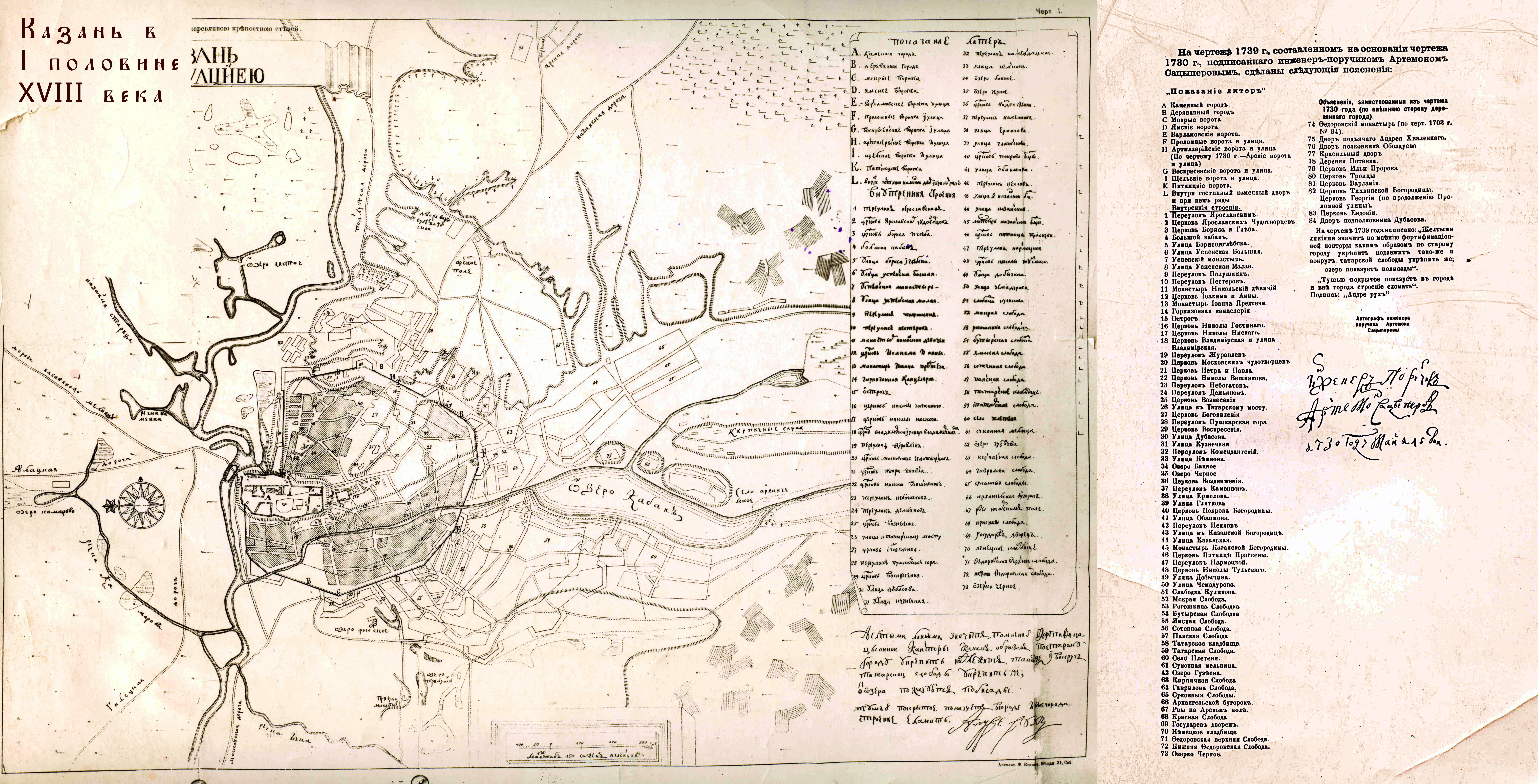 map of Kazan in 1739